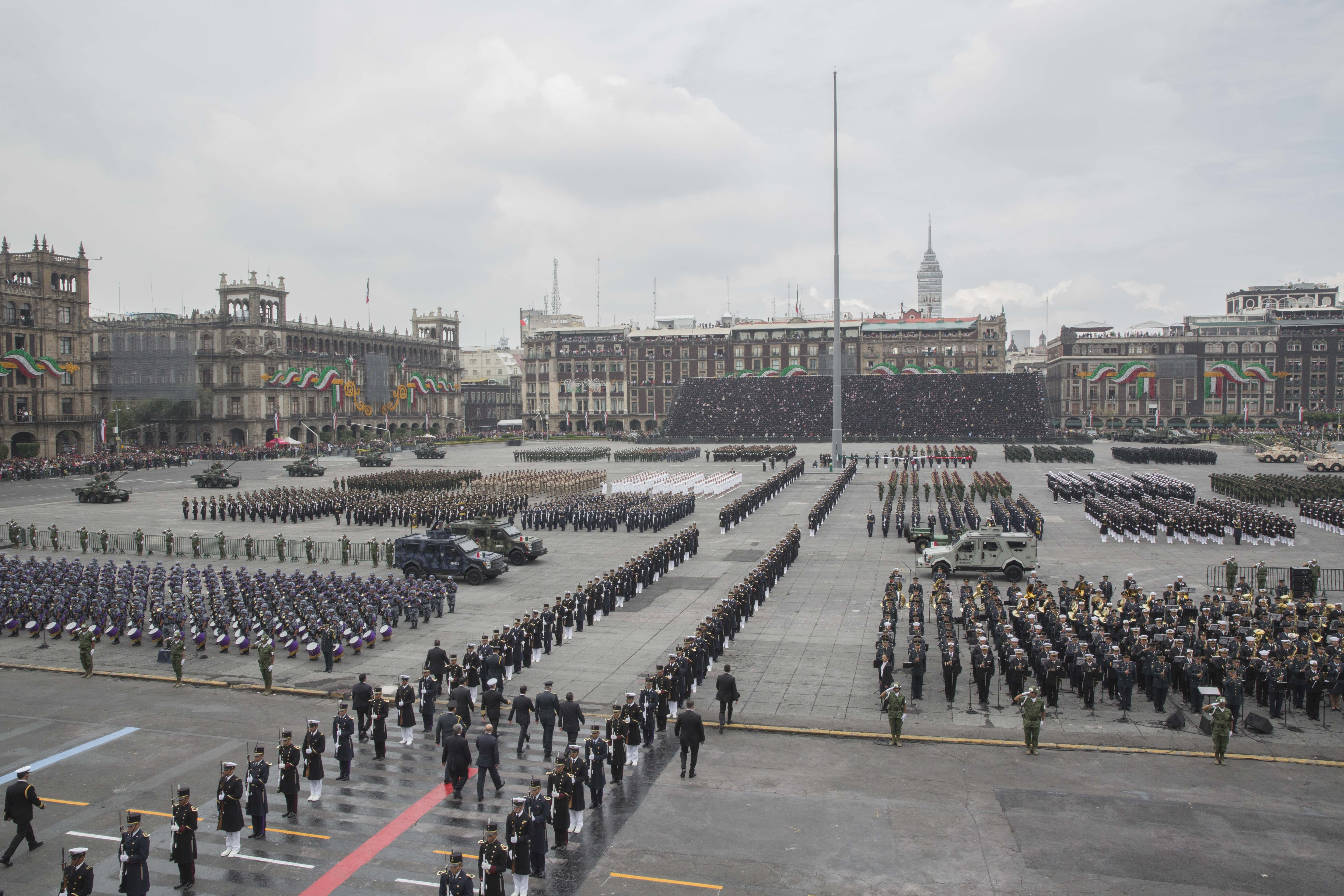 Desfile Militar Conmemorativo del CCV Aniversario del Inicio de la Independencia de México. Ciudad de México. 16 de septiembre de 2015.